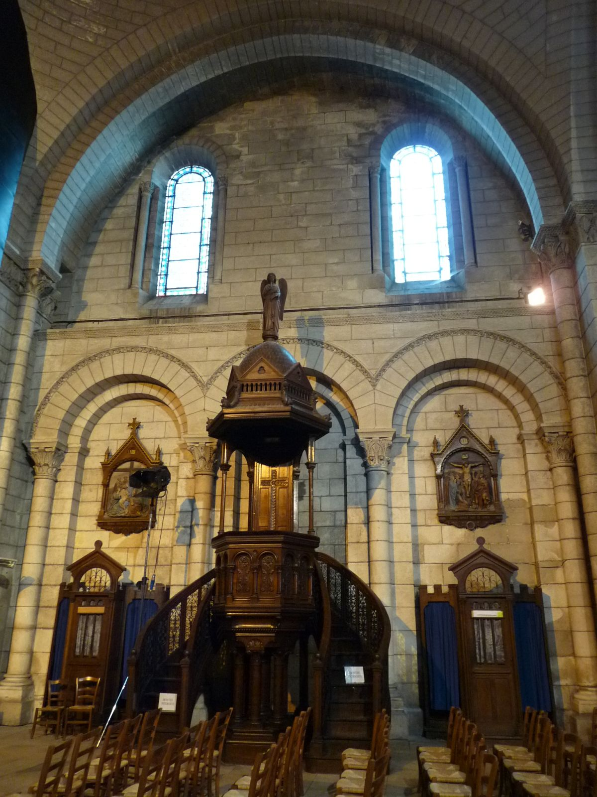 Inside of St Peter's Cathedral, Angoulême, Charente, SW France